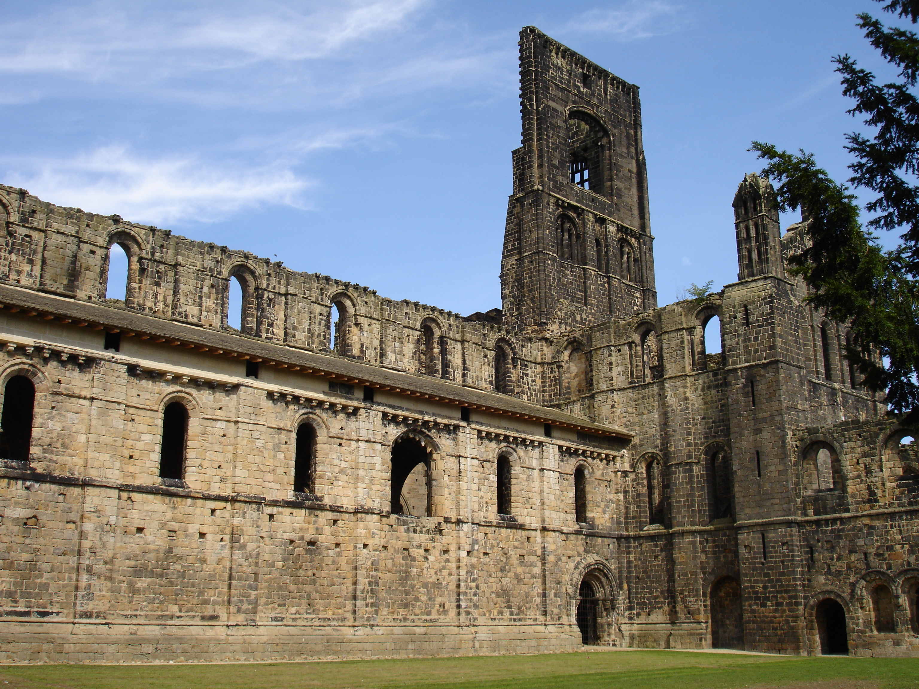 Photograph of Kirkstall Abbey, West Yorkshire, England